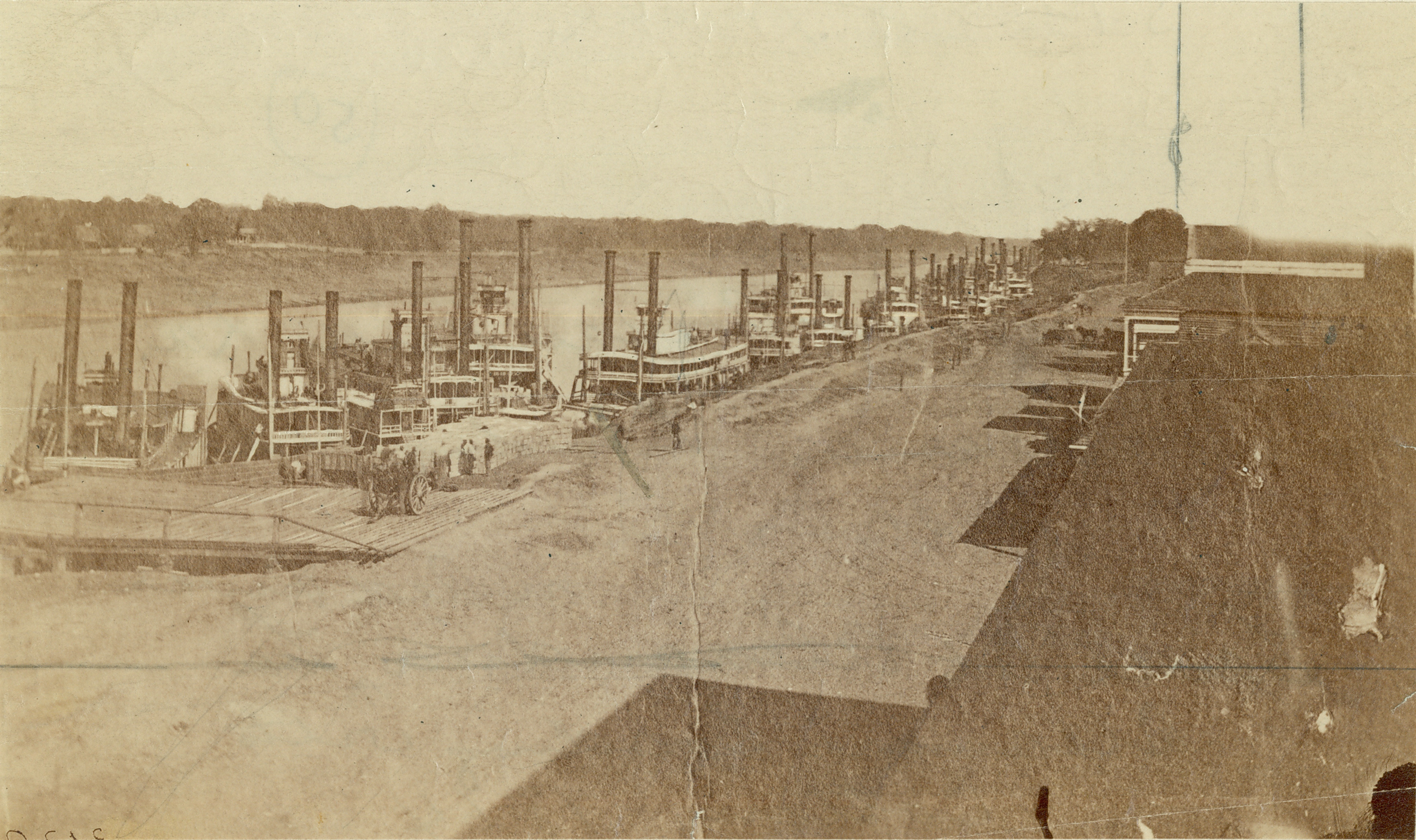 Photograph of what appears to be a riverboat docked along a river bank with a steep cliff in the background. "Civil War Photograph, Levee at Alexandria Louisiana on the Red River, Steamers loading with cotton, 1864, Gift of John H. Gundlach." (written on reverse side). Title: Unidentified Steamer Boats.